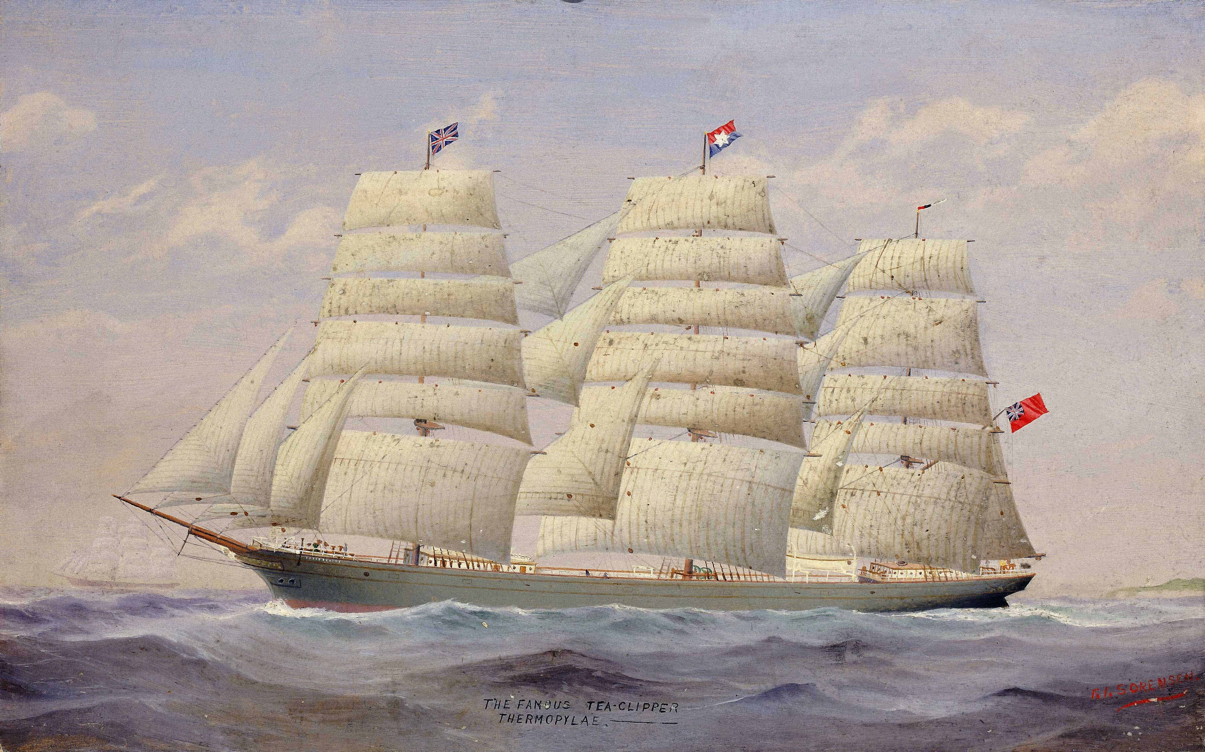 ‚Cutty Sark‘ (left in the background) races ‚Thermopylae‘